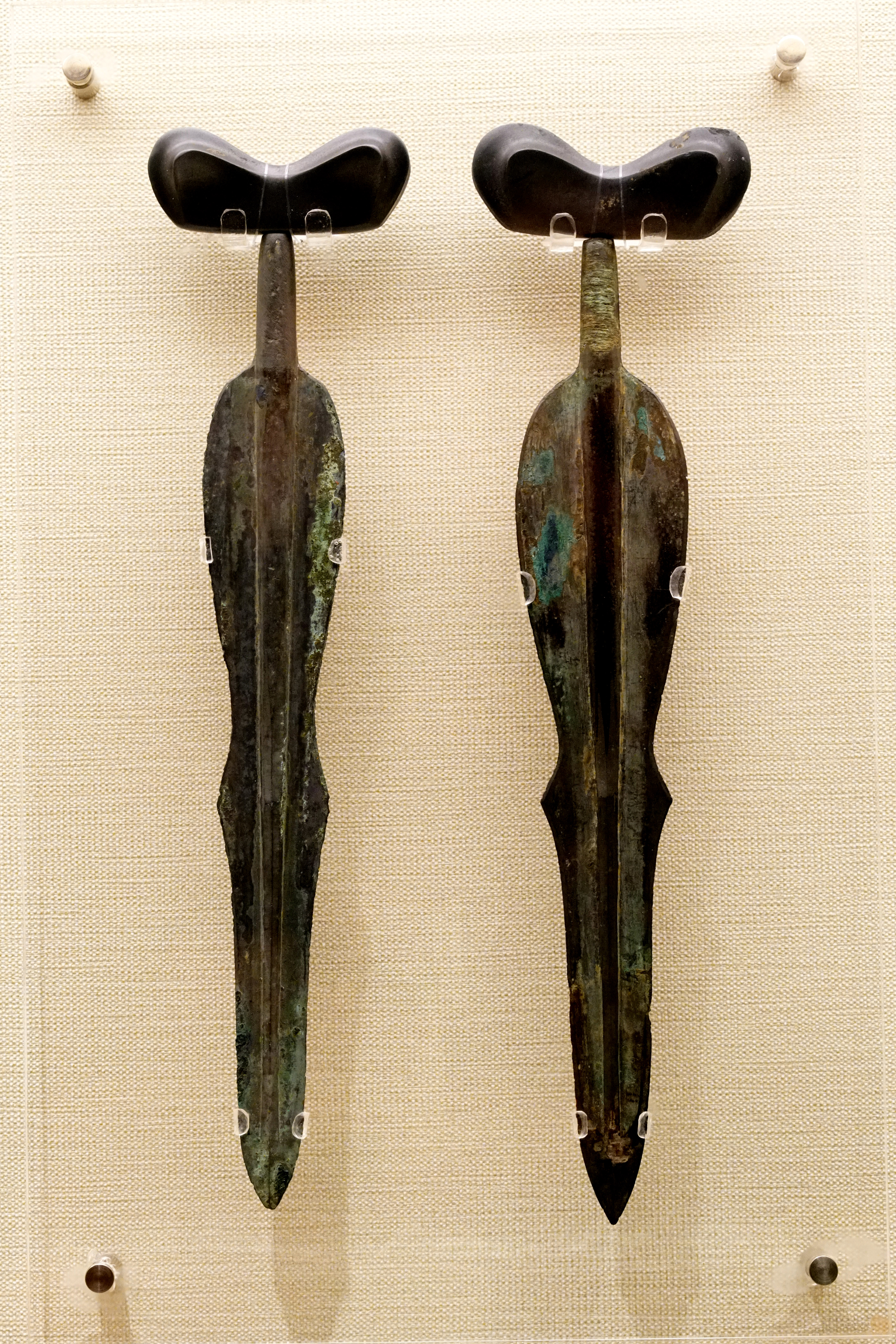 Bronze dragger.